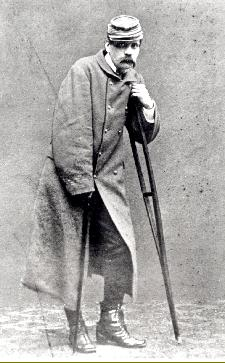 French historian Charles-Albert Costa de Beauregard (1825-1909) shortly after having being wounded at the battle of Bethoncourt in 1871